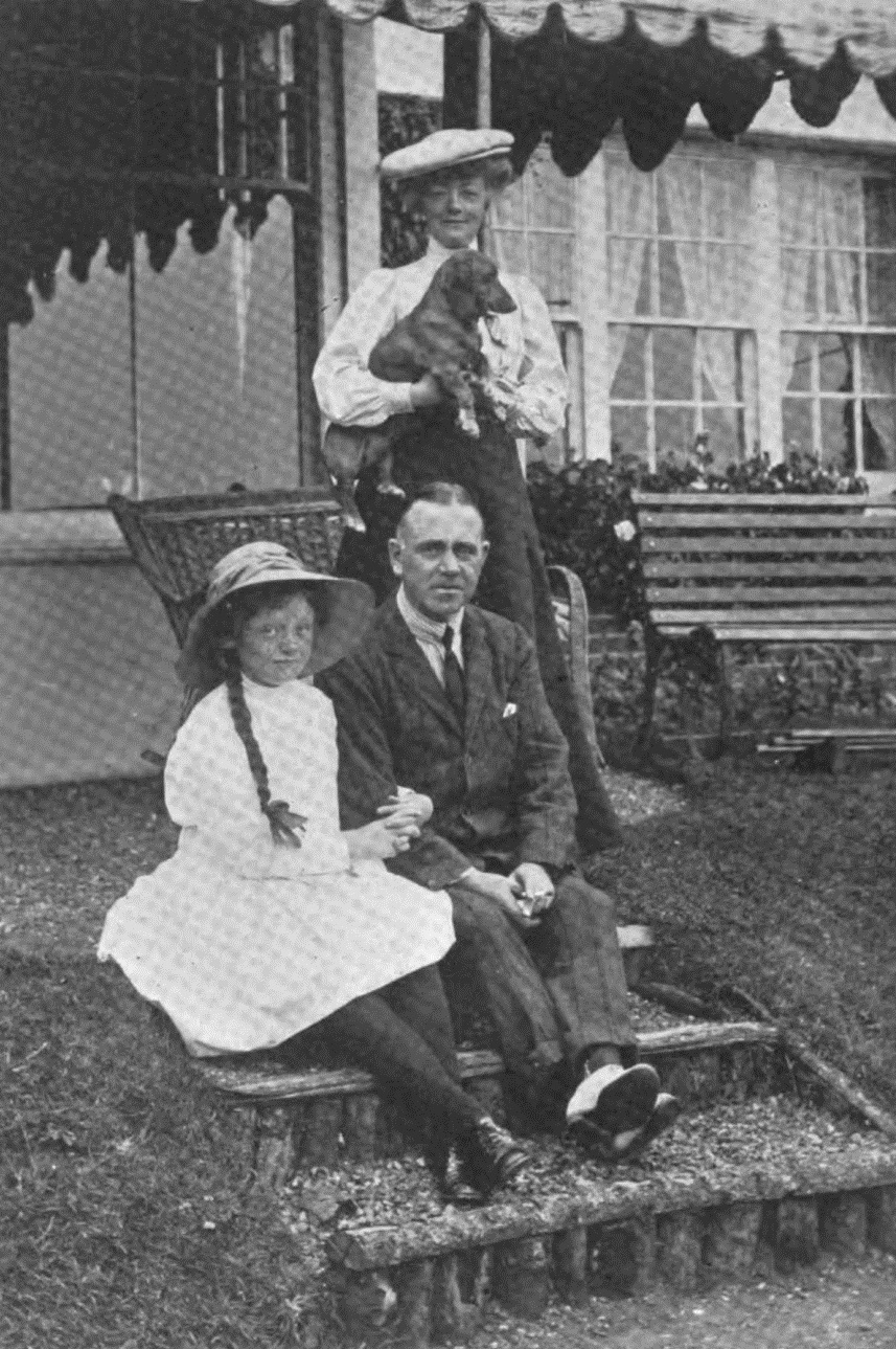 E. Phillips Oppenheim, Mrs. Oppenheim, and Miss Oppenheim at their home in Sheringham, England